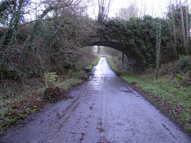 R185 Road at Kiltybegs This once was the main road between Monaghan and Caledon but was been cratered during the "troubles" at the border where it joined the B45 in Northern Ireland